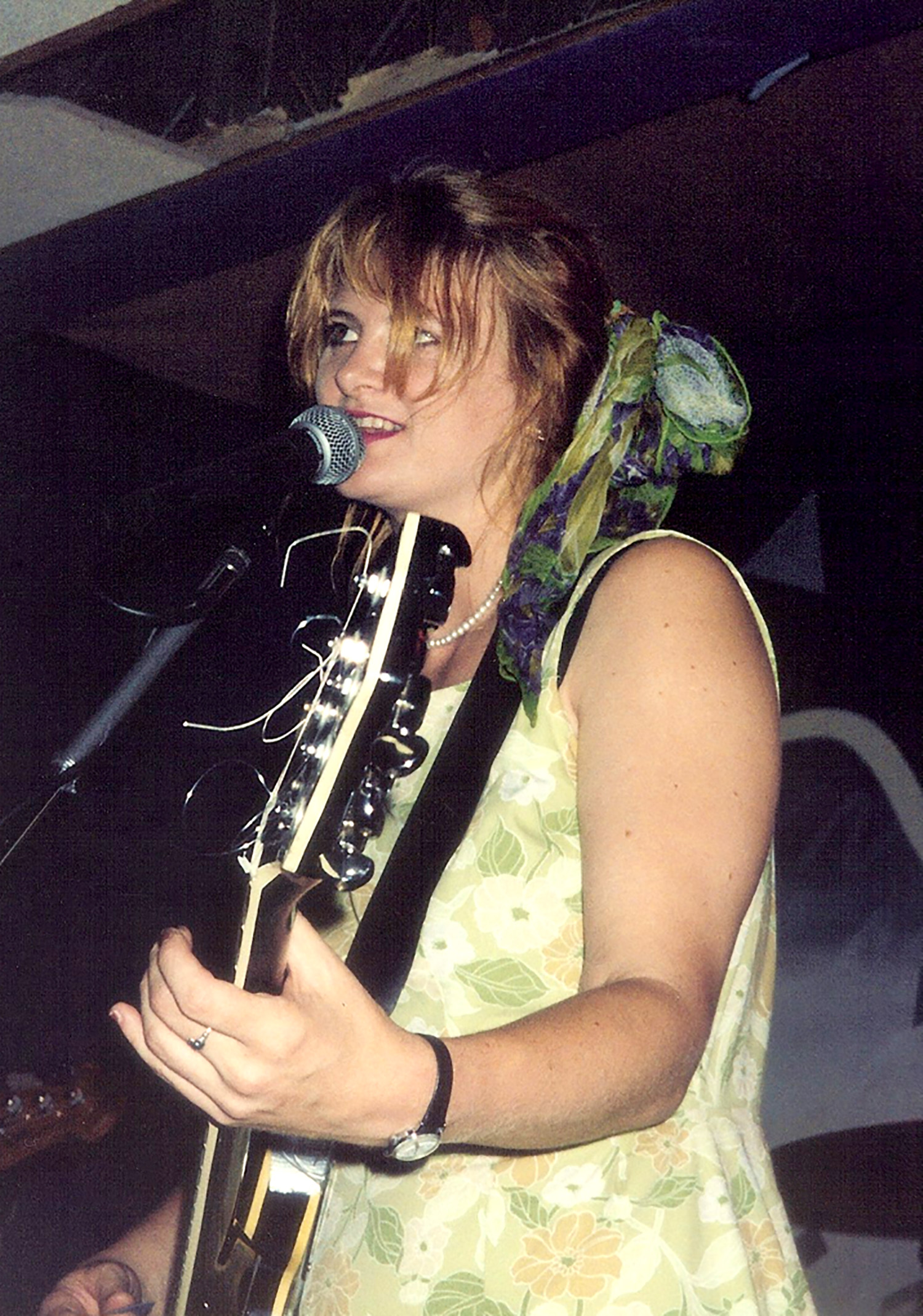 Singer-songwriter Barbara Manning performs circa 1994